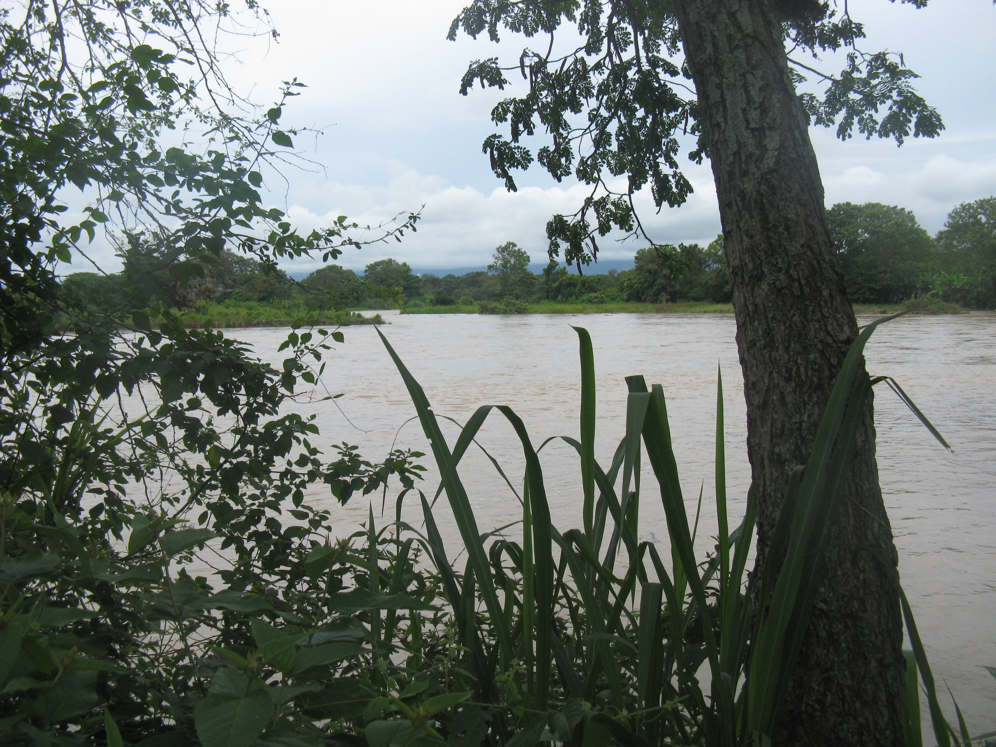 The Magdalena River at Villa Vieja